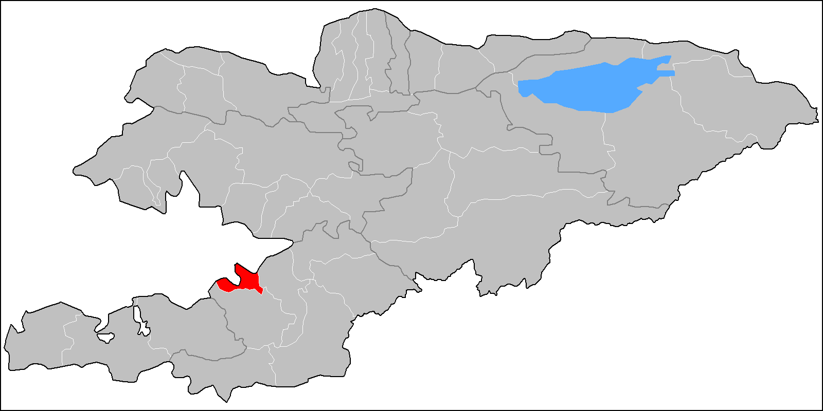 The location of the raion (district) of Aravan in Kyrgyzstan. Based on Image:Kyrgyzstan raions.png